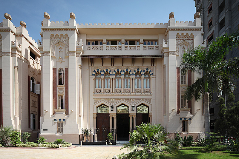 Opera house, Damanhur, Ägypten